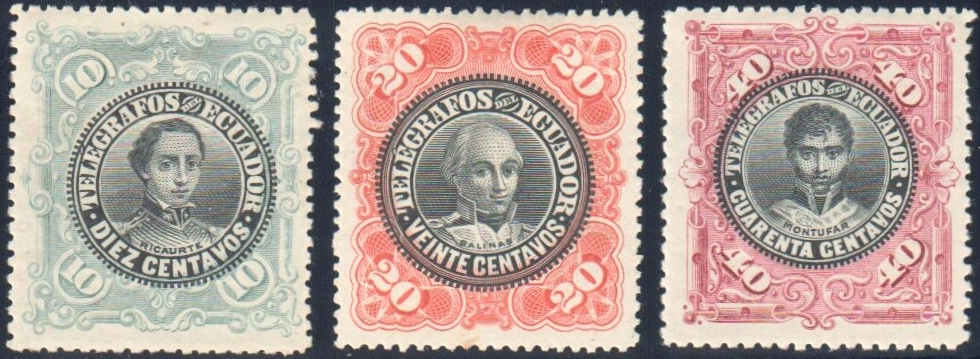 Ecuador 1900 mint telegraph stamp set. Yvert T23-25.